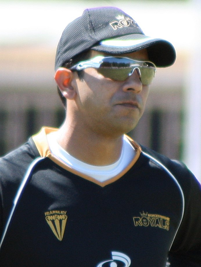 Vikram Solanki captaining Worcestershire during a Clydesdale Bank 40 match against Somerset at the Recreation Ground, Bath.